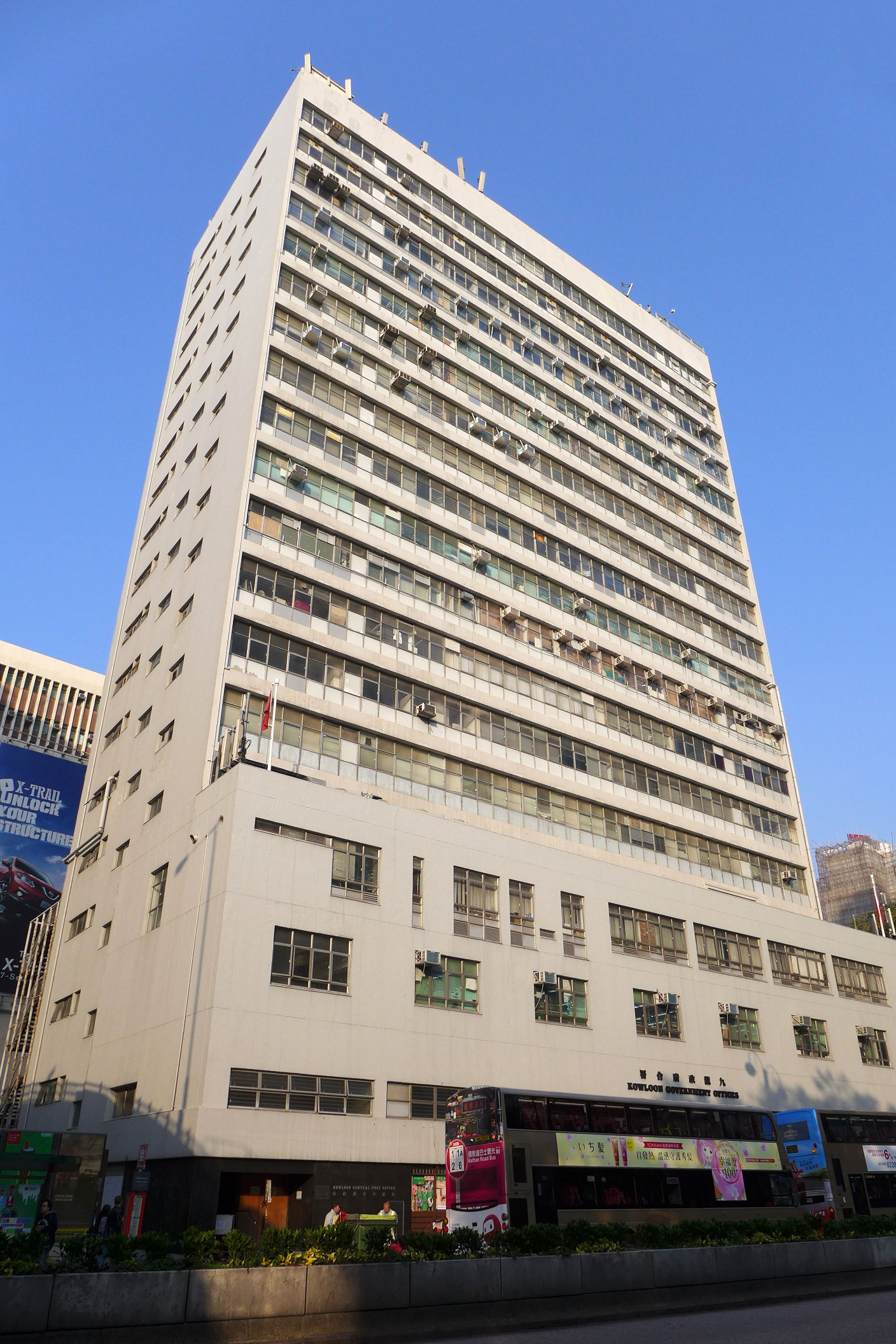 Kowloon Government Offices